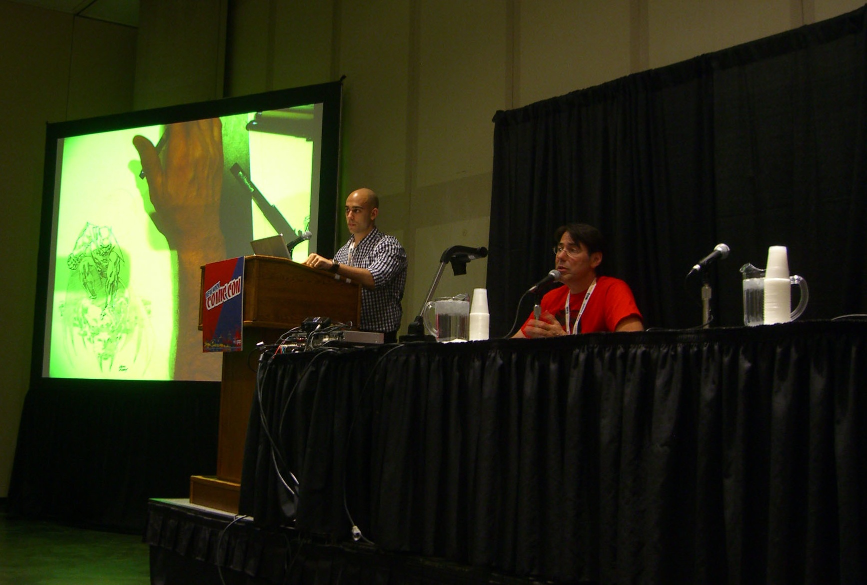 Panel discussion on the Kubert School, a cartooning art school in Dover, New Jersey, on Day 2 of the 2012 New York Comic Con, Friday October 12, 2012. Emceeing the discussion is Kubert school alumnus Anthony Marques. Seated at the table is Adam Kubert, an alumnus and teacher at the school, and the son of the school's founder, Joe Kubert. This photo was created by Luigi Novi. It is not in the public domain, and use of this file outside of the licensing terms is a copyright violation.